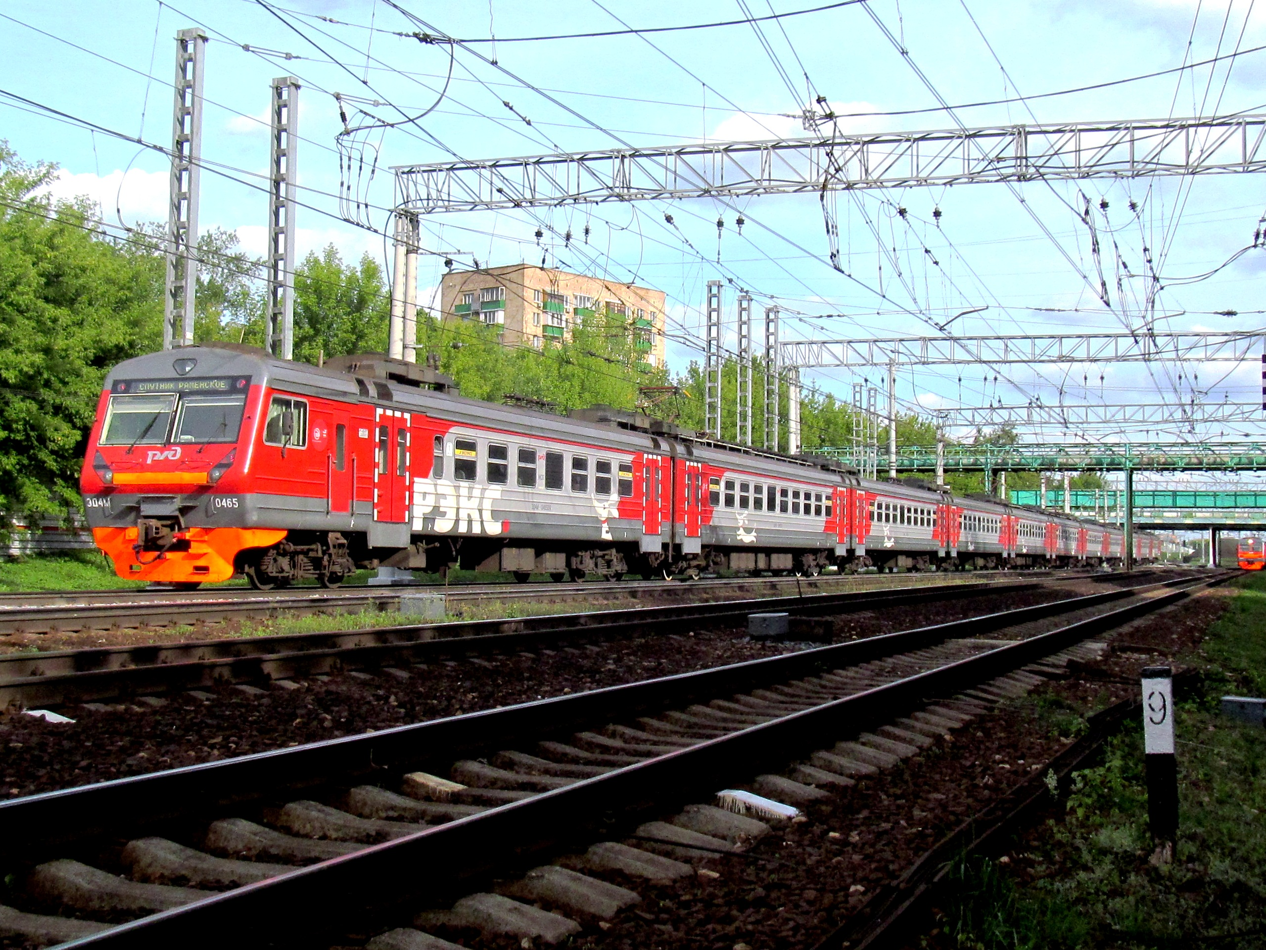 ED4M-0465 EMU in combined RZD-REKS livery near Elektrozavodskaya platform of Moscow Railway